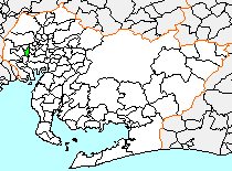 Modified by me from Wikipedia's file